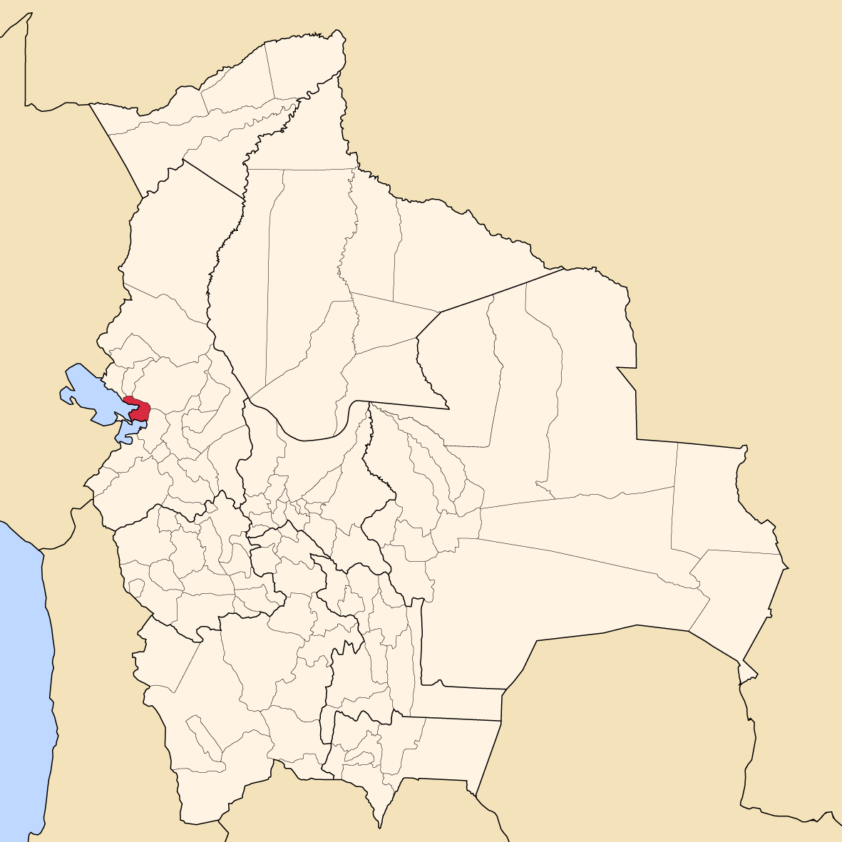 Map of Bolivia showing Omasuyos Province, La Paz